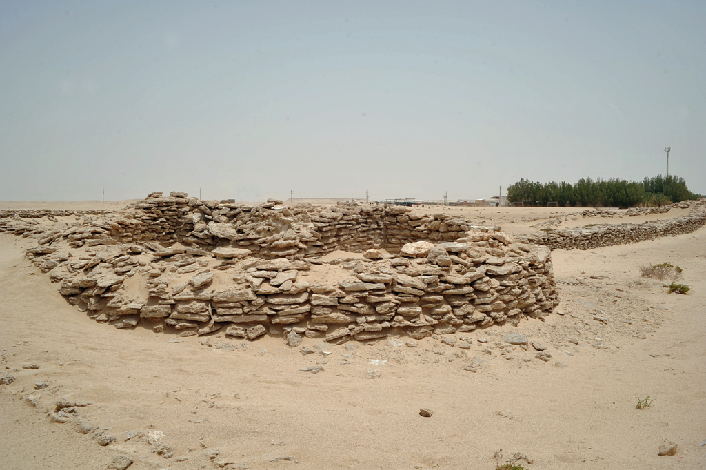 These remains of an old desert fort are located at Zekreet, 100km west of Doha.